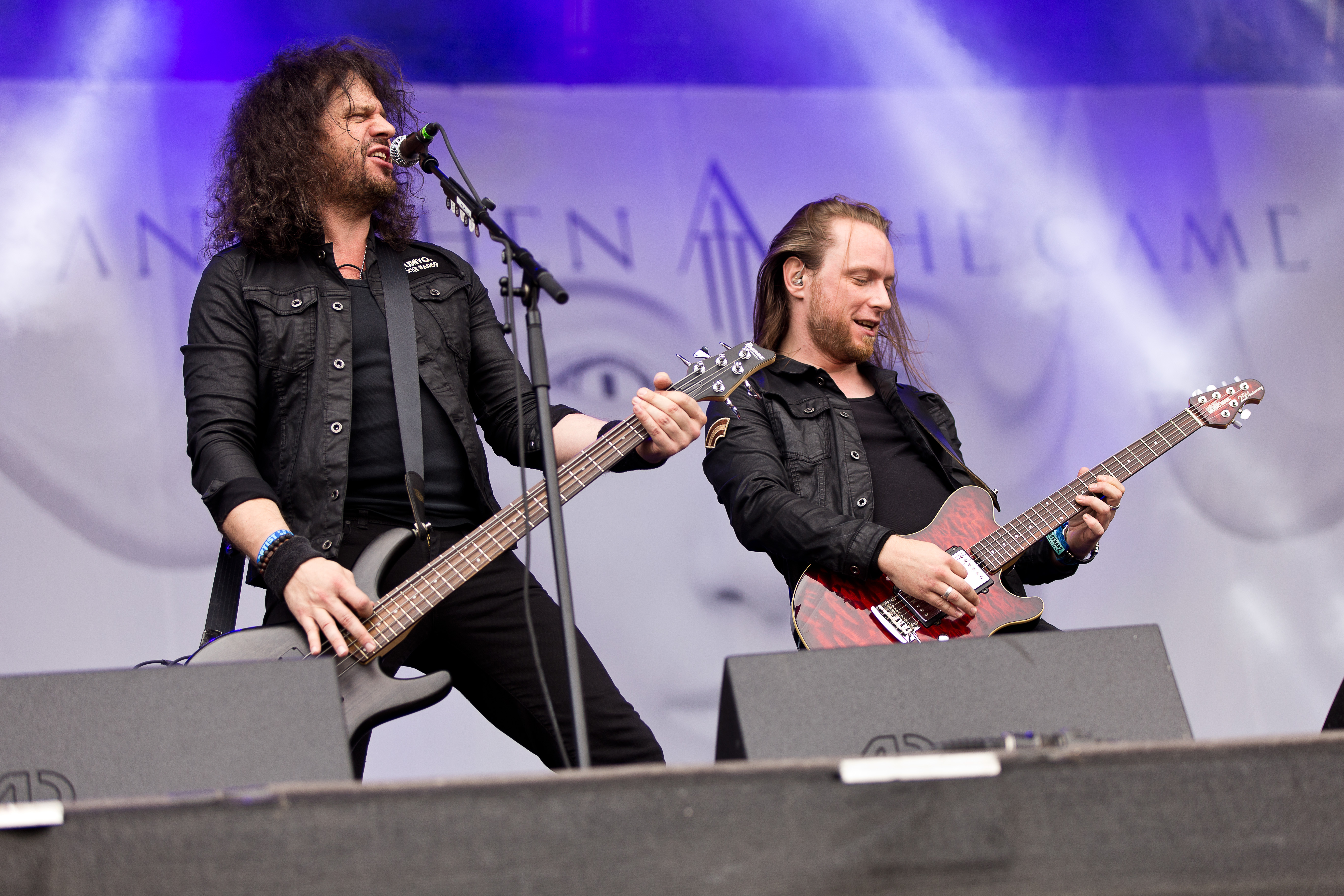 The German rock band And Then She Came at the Rockharz Open Air 2016 in Ballenstedt/Germany.